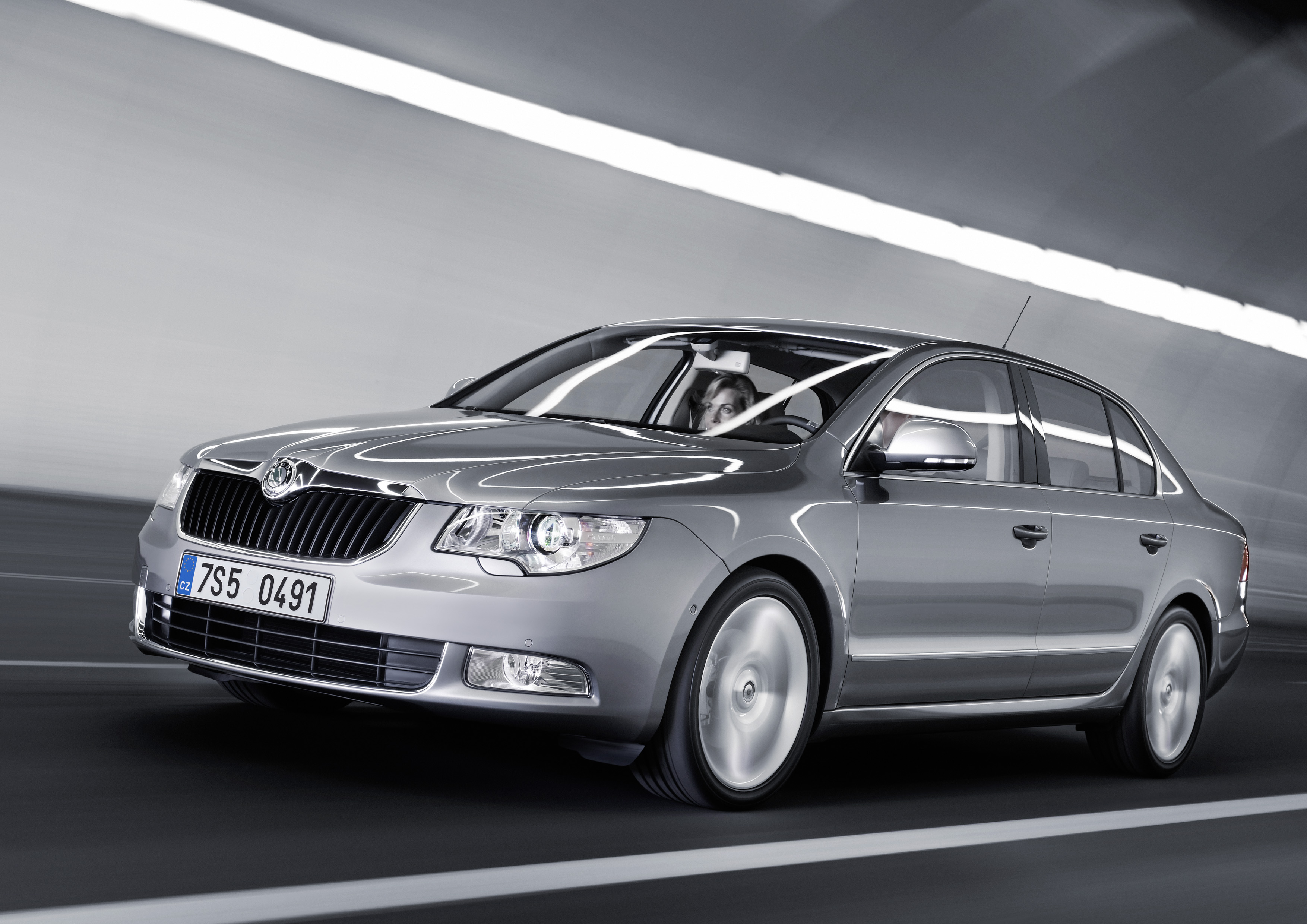 A Škoda Superb car.